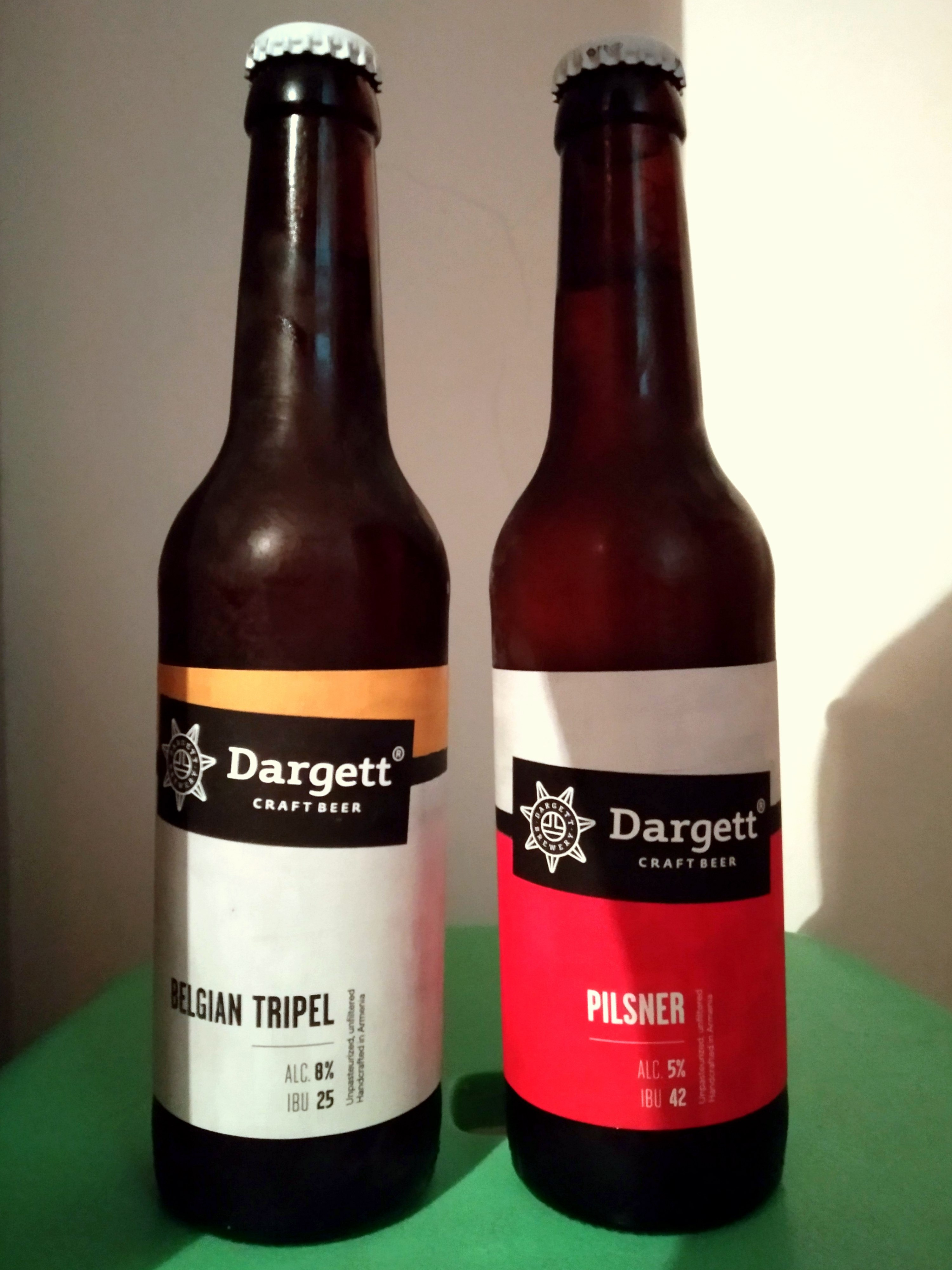 Dargett Craft Beer, Belgian tripel and Bohemian pilsner.